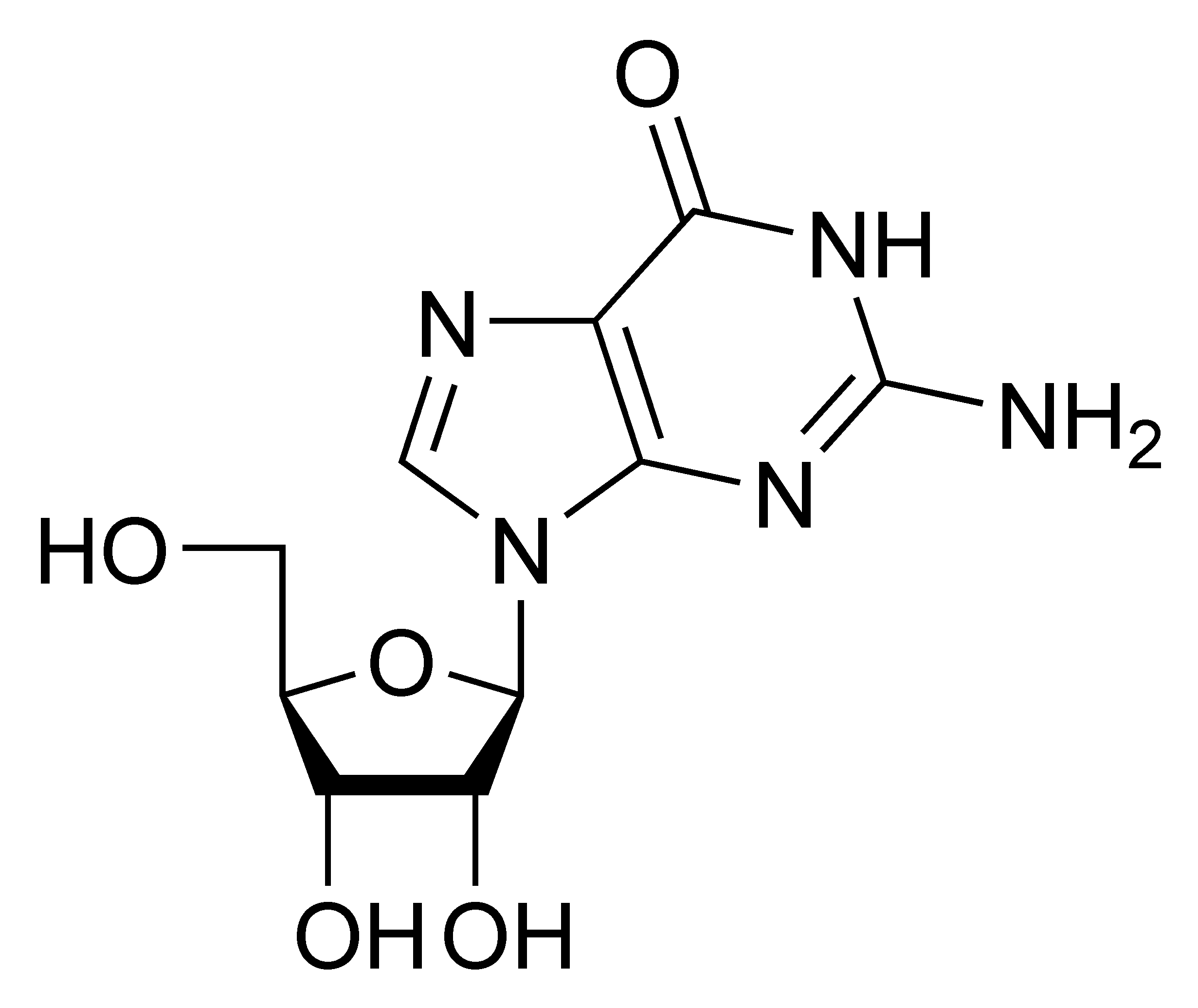 Chemical structure of Guanosine